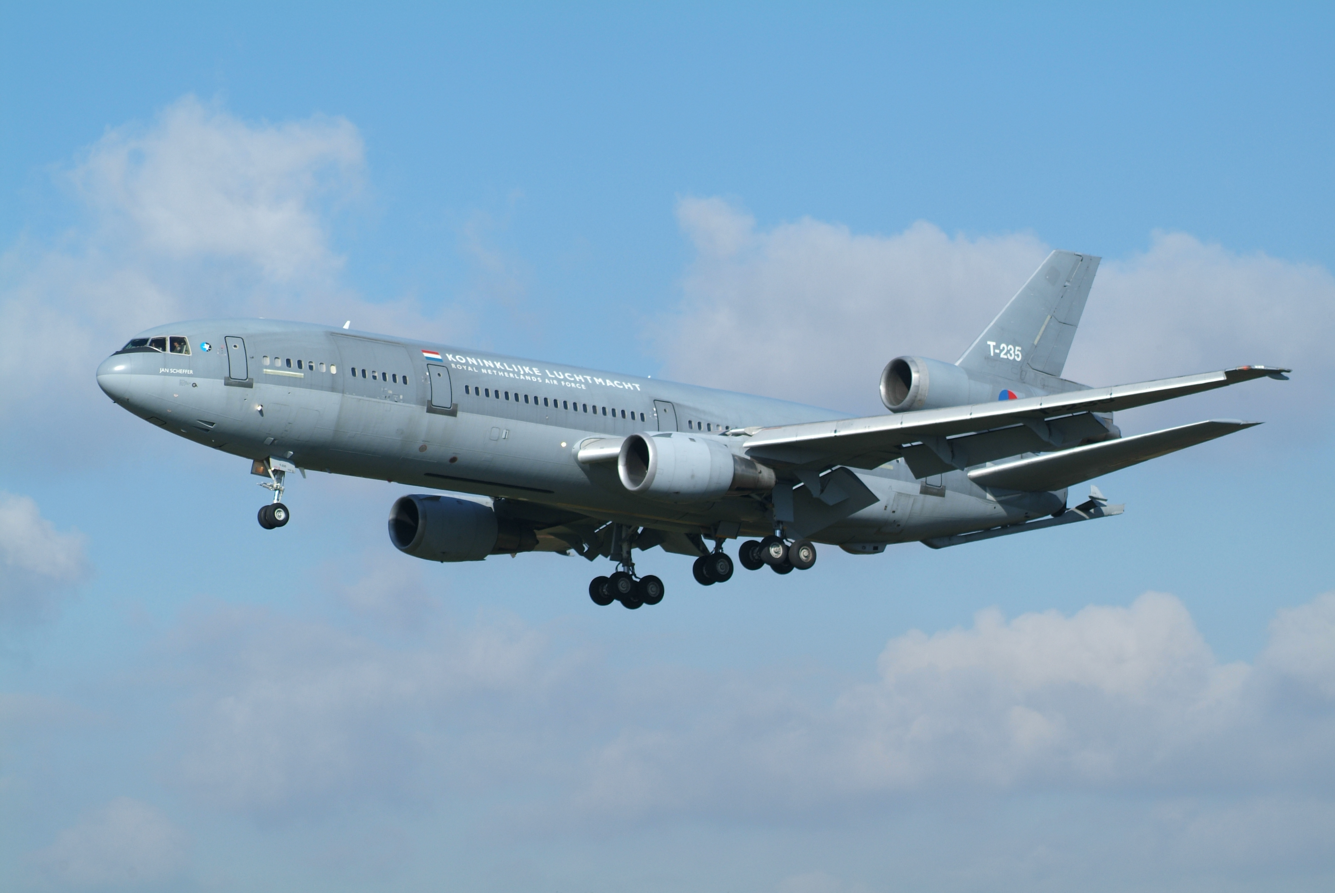 Netherlands Air Force KDC-10-30CF of 334 Sqdn. Overshooting RAF Waddington